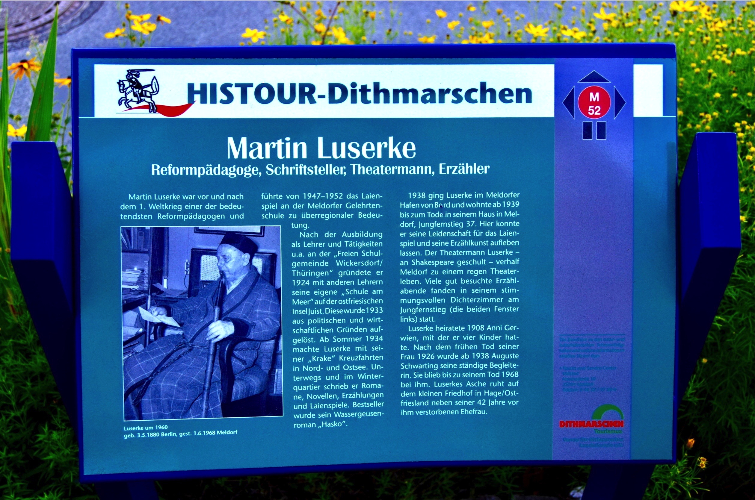 Information board as a reminiscence for the German taleteller, writer and progressive pedagogue Martin Luserke (1880–1968) which was erected in 2009 next to his former home in Meldorf in the district of Dithmarschen, Holstein, Germany. It replaced an older plaque from 1987 which was mounted directly at his home.